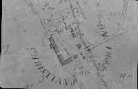 A map of the Moravian community of Christiansbrunn showing how it looked in the mid-19th century. The buildings are arranged in a traditional Germanic-Moravian quadrangle with the public road going through the quadrangle.